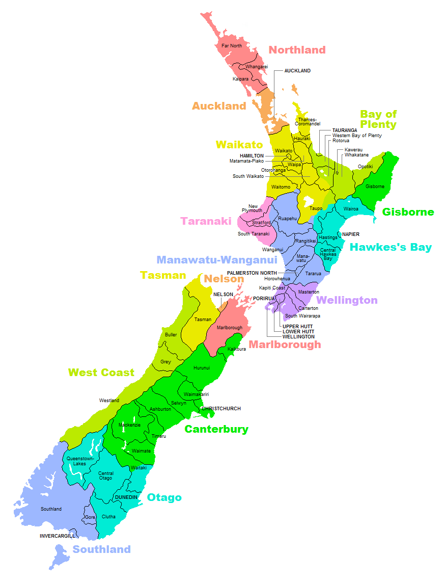 Map of territorial authorities (regions, districts, municipalities, etc) in New Zealand